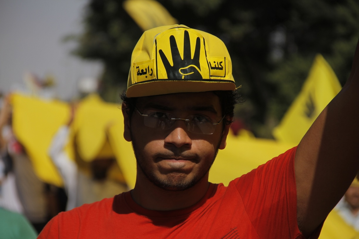 Original description: "A protester wears a hat with the image of a hand holding up four fingers, Maadi, southern Cairo, Sept. 20, 2013. (Hamada Elrasam for VOA)"